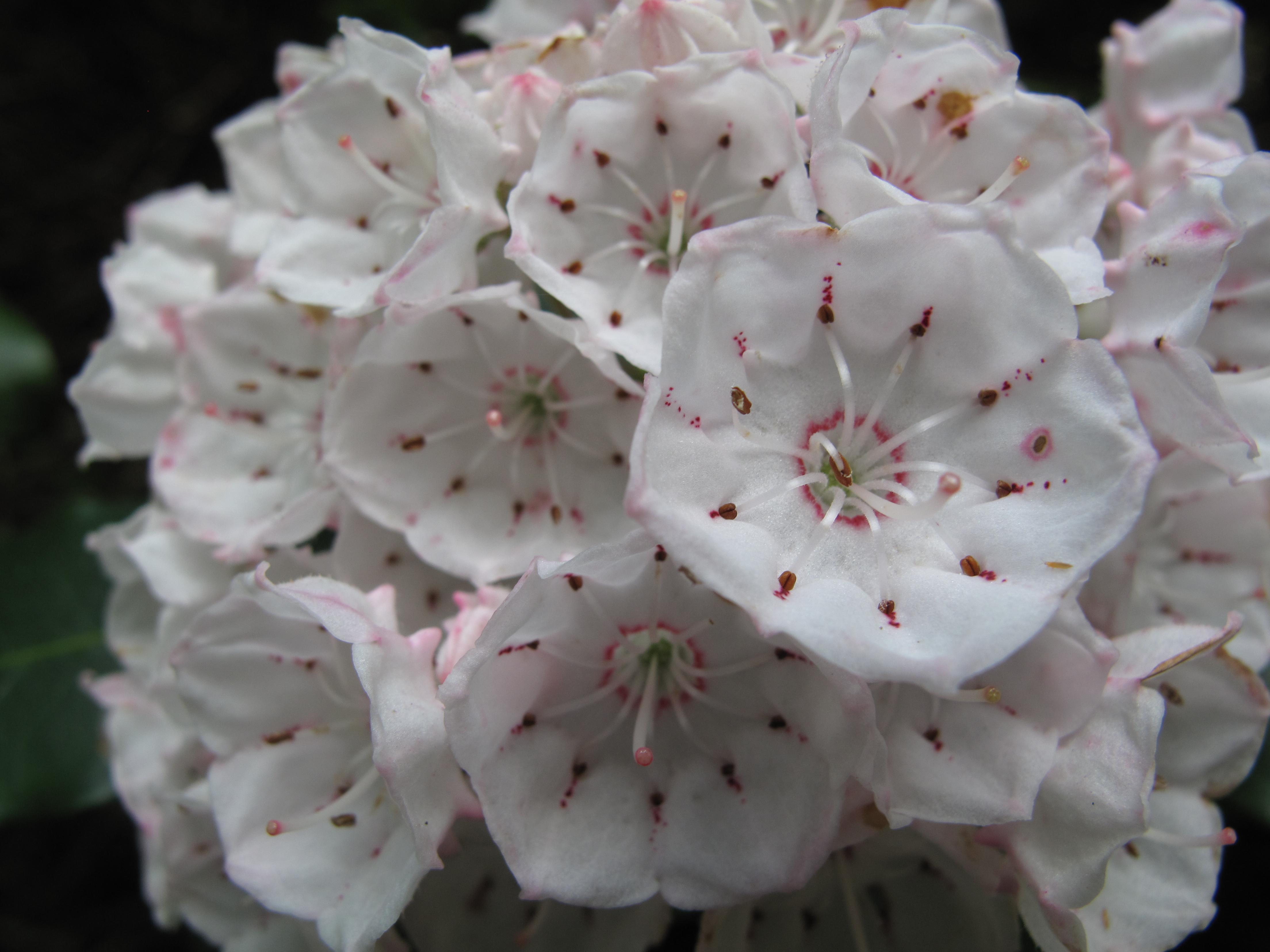 Credit: Gary Peeples/USFWS